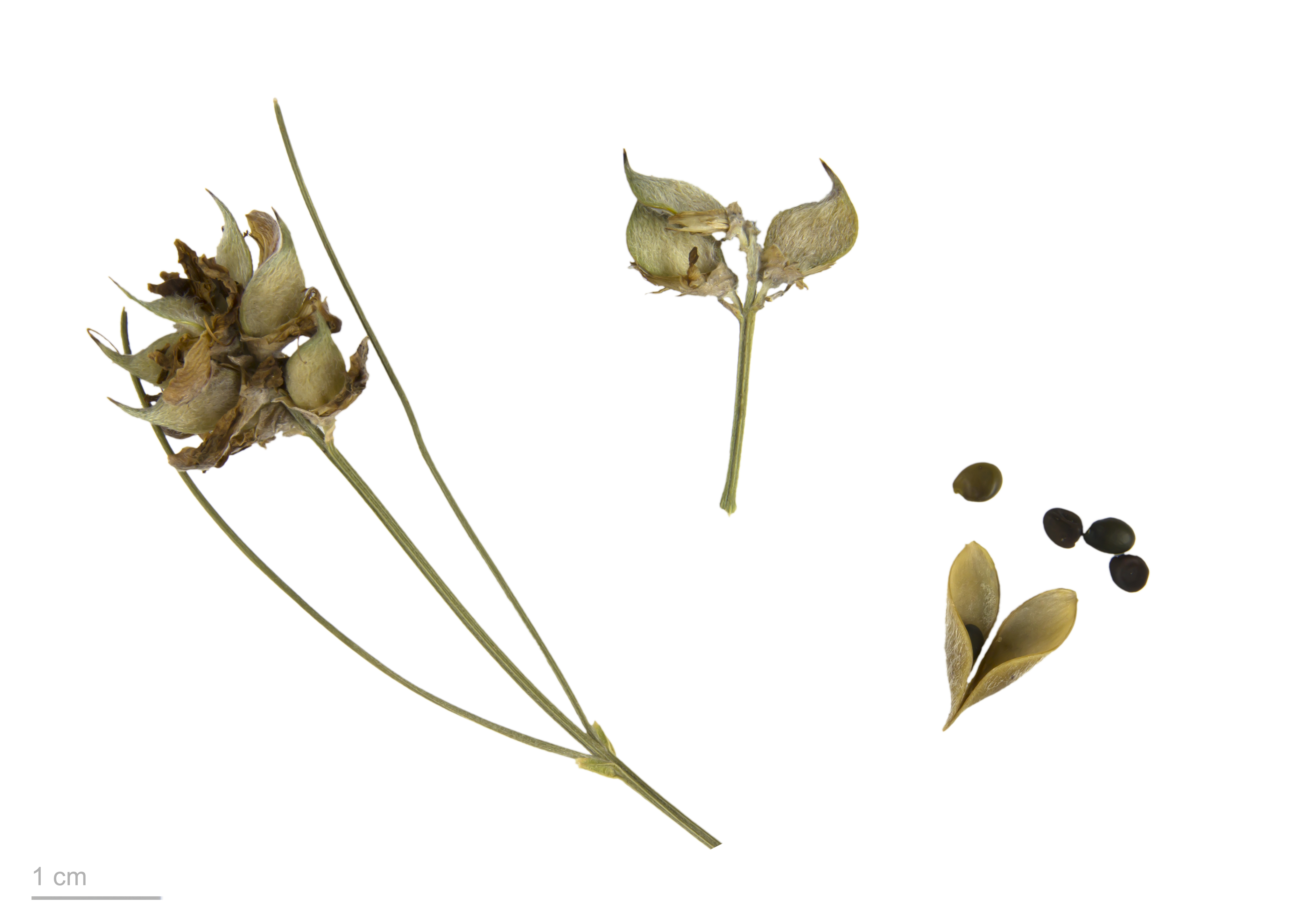 Genista radiata, seeds